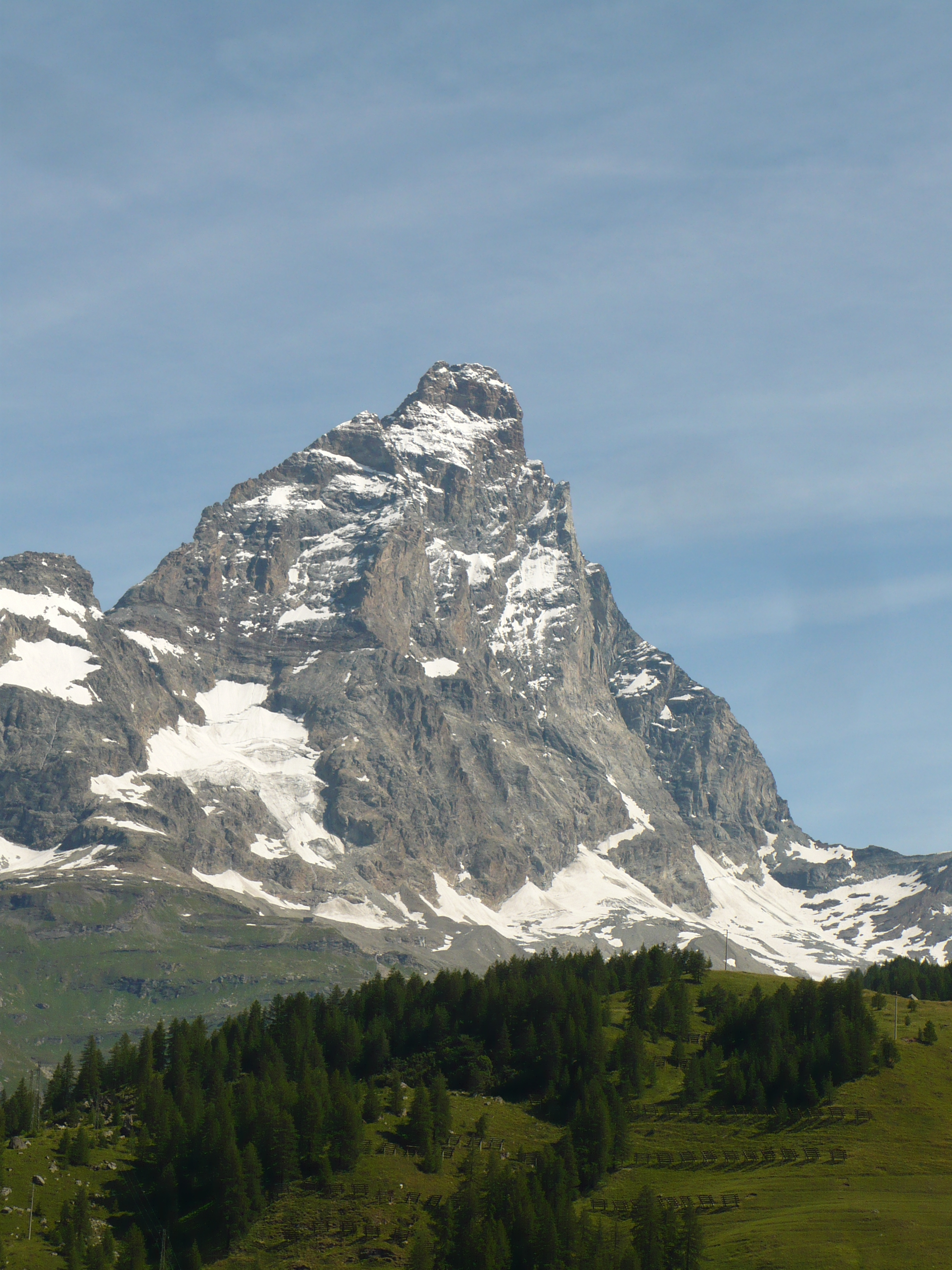 Cervino (Matterhorn) - sud ridge - Pennine Alps